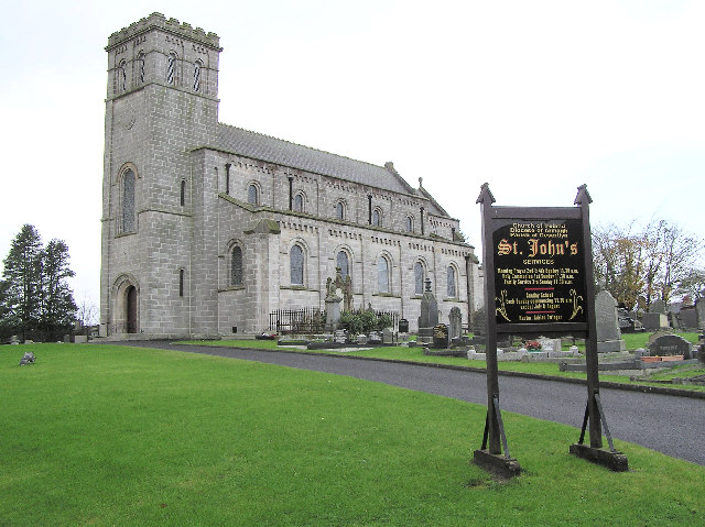 St John's Desertlynn Church of Ireland. Located in Moneymore, County Londonderry, but part of the Diocese of Armagh